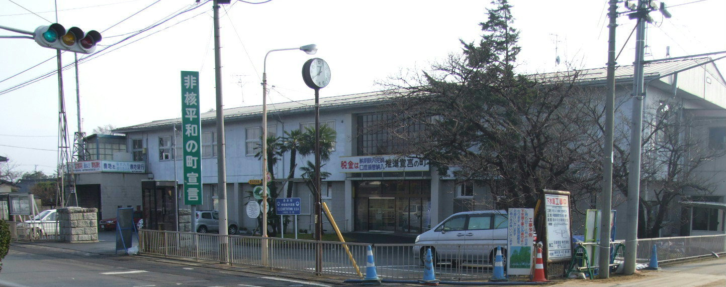 Kōri Town Hall. Kori, Fukushima prefecture, Japan.